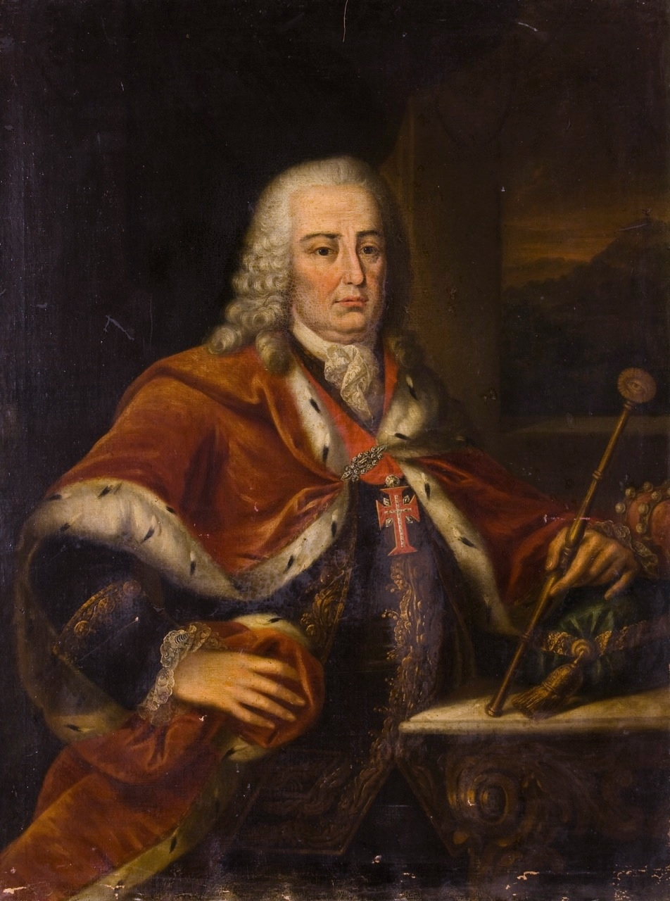 King Joseph I of Portugal (1714-1777)